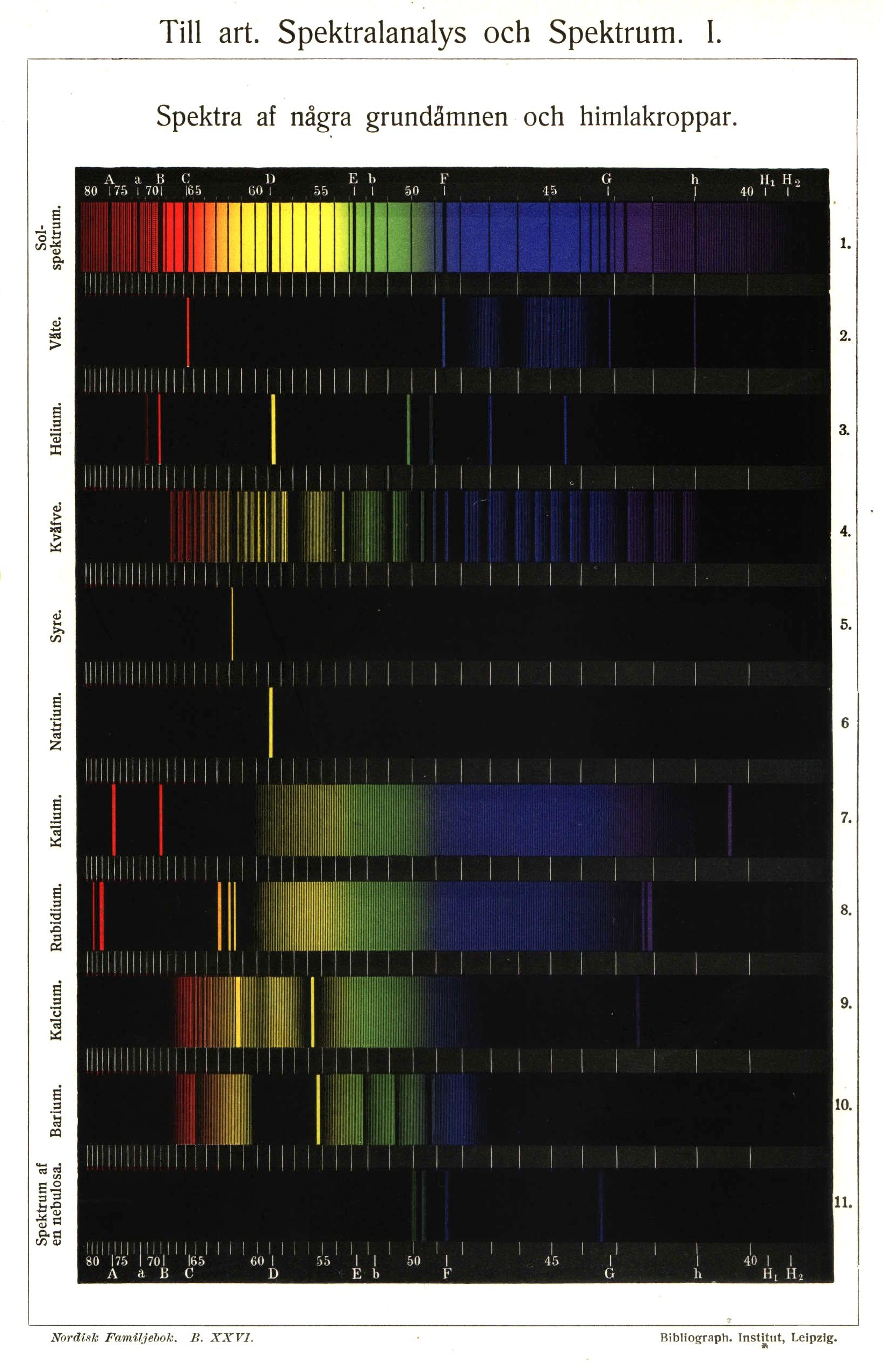 Color plate with line spectra